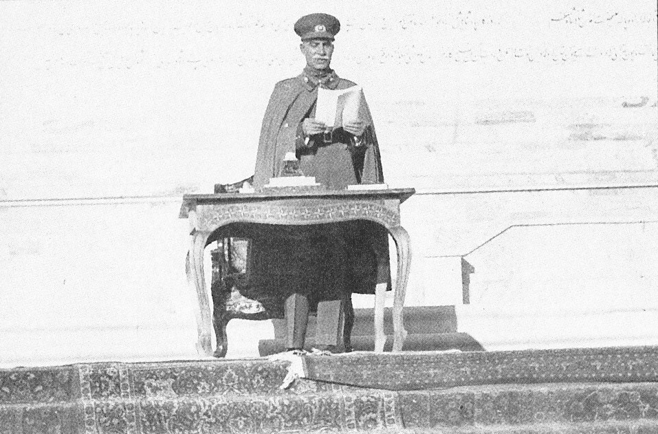 Reza Shah, inauguration of the Ferdowsi mausoleum, Tus, October 12, 1934